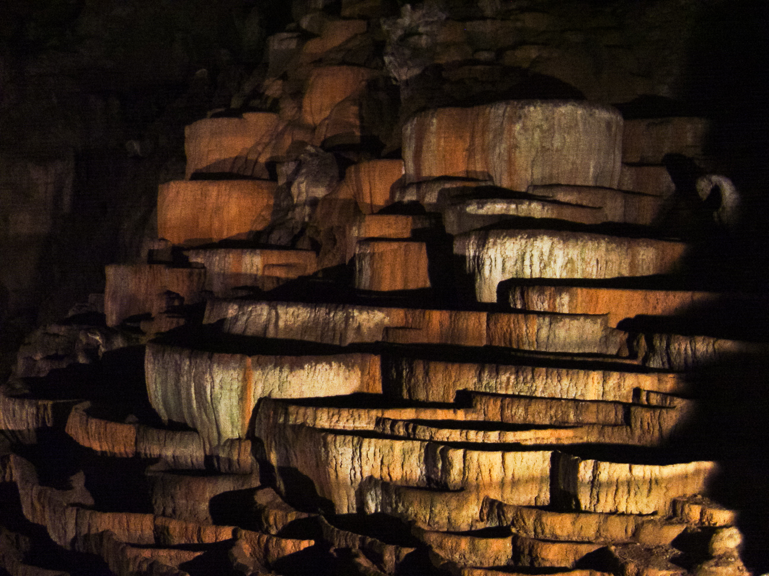 Inside Škocjan Caves, Slovenia. Terraces of precipitated calcium carbonate, rare inside a cave. Cave is a World Heritage Site in Slovenia